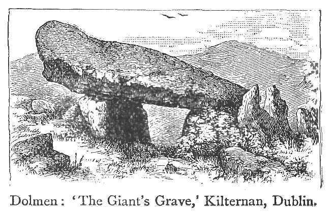 Illustration from 1908 Chambers's Twentieth Century Dictionary. Dolmen, n. a stone table: the French name for a cromlech, a prehistoric structure of two or more erect unhewn stones, supporting a large flattish stone.